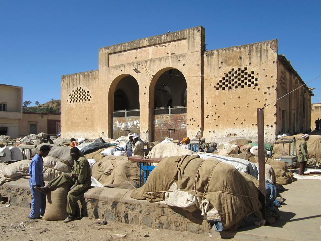 Signs of a bygone battle pock the old market building in Mendefera, Eritrea.